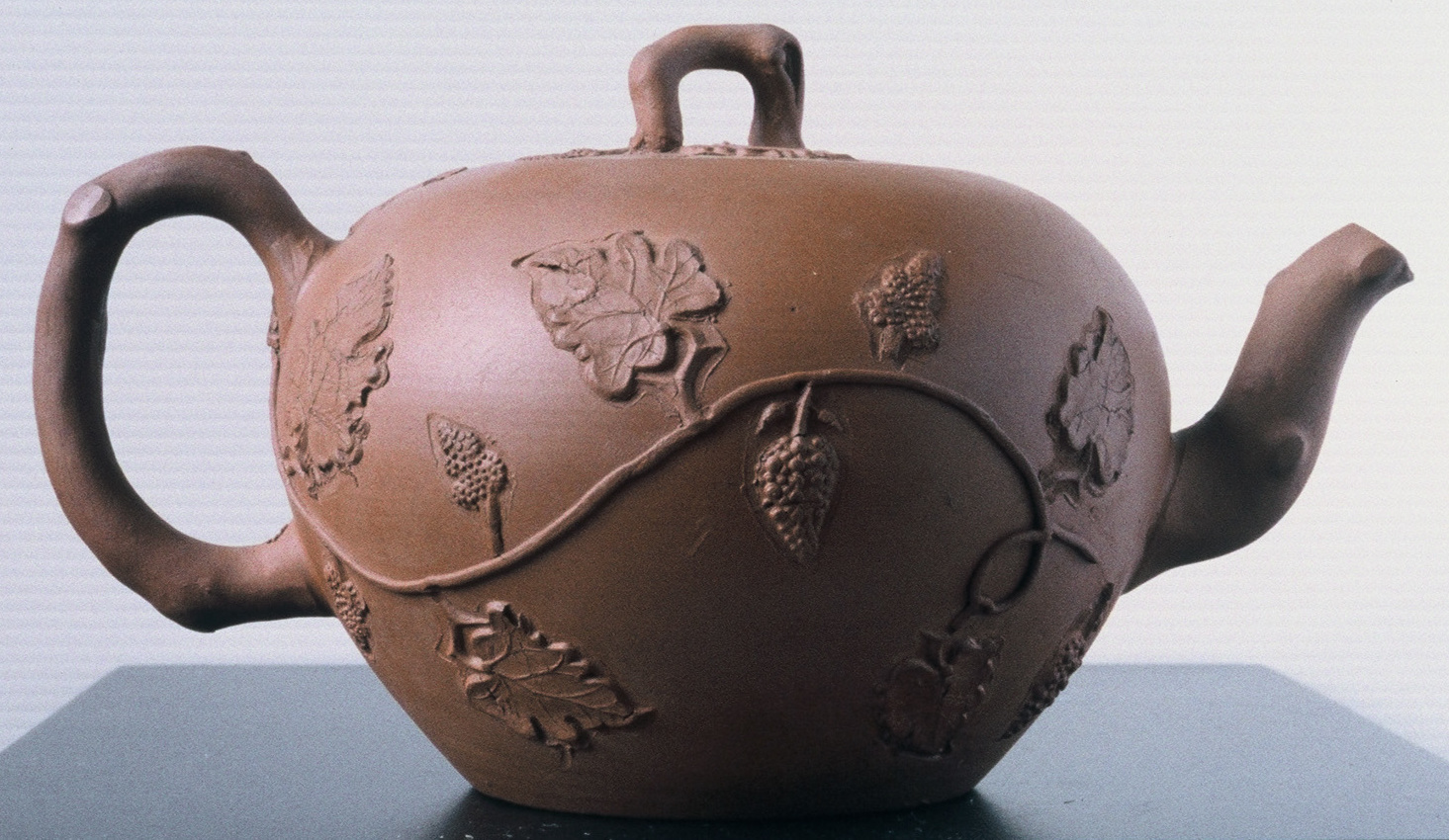 Teapot and lid, (red) brown, decorated with applied vine tendrils. (The English version of the Chinese Yi hsing stoneware teapot. - Gallery card)